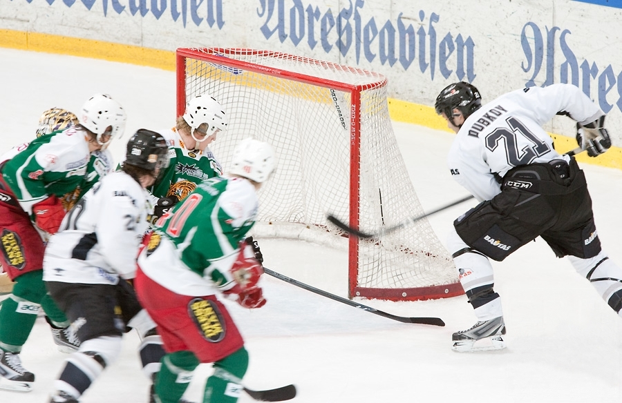 RIHK